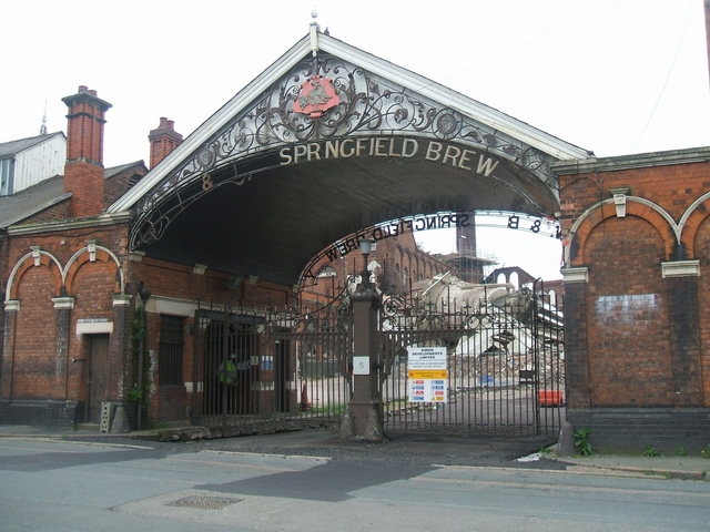 Springfield Brewery Redevelopment - Demolition. The tower of the brewhouse has finally been demolished. 272795692798